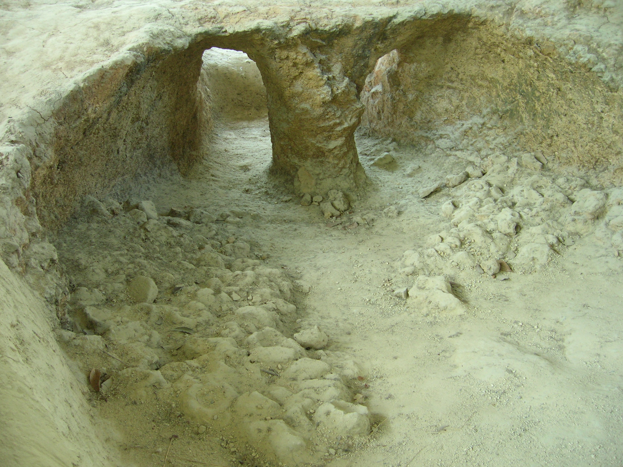 Minamiyama koyouseki-gun (Ruin of Minamiyama Old kilns). These anagama kilns were used until the Heian period Kamakura period. Loc: Seto city, Aichi Prefecture, Japan. 南山古窯跡群・9-C号窯（上方から見た窯体内部） 撮影場所 愛知県瀬戸市・愛知県陶磁資料館